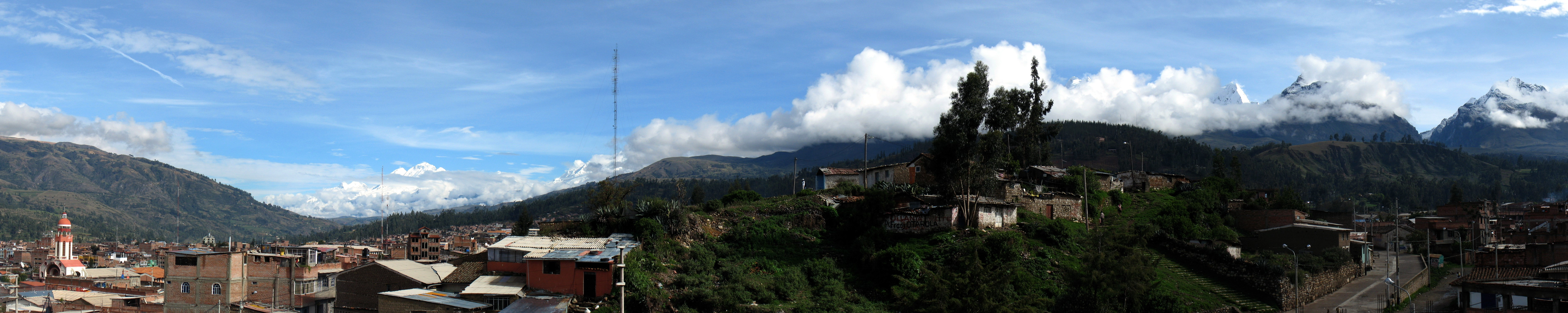 Cordillera Blanca seen from Huaraz. Looking north behind Huaraz (3100 m) down the Santa Valley is Nevado Huascaran (6778 m, some clouds). Looking east are Vallunaraju (5680 m), Ocshapalca (5888 m), Ranrapalca (6162 m), Churup (5495 m).